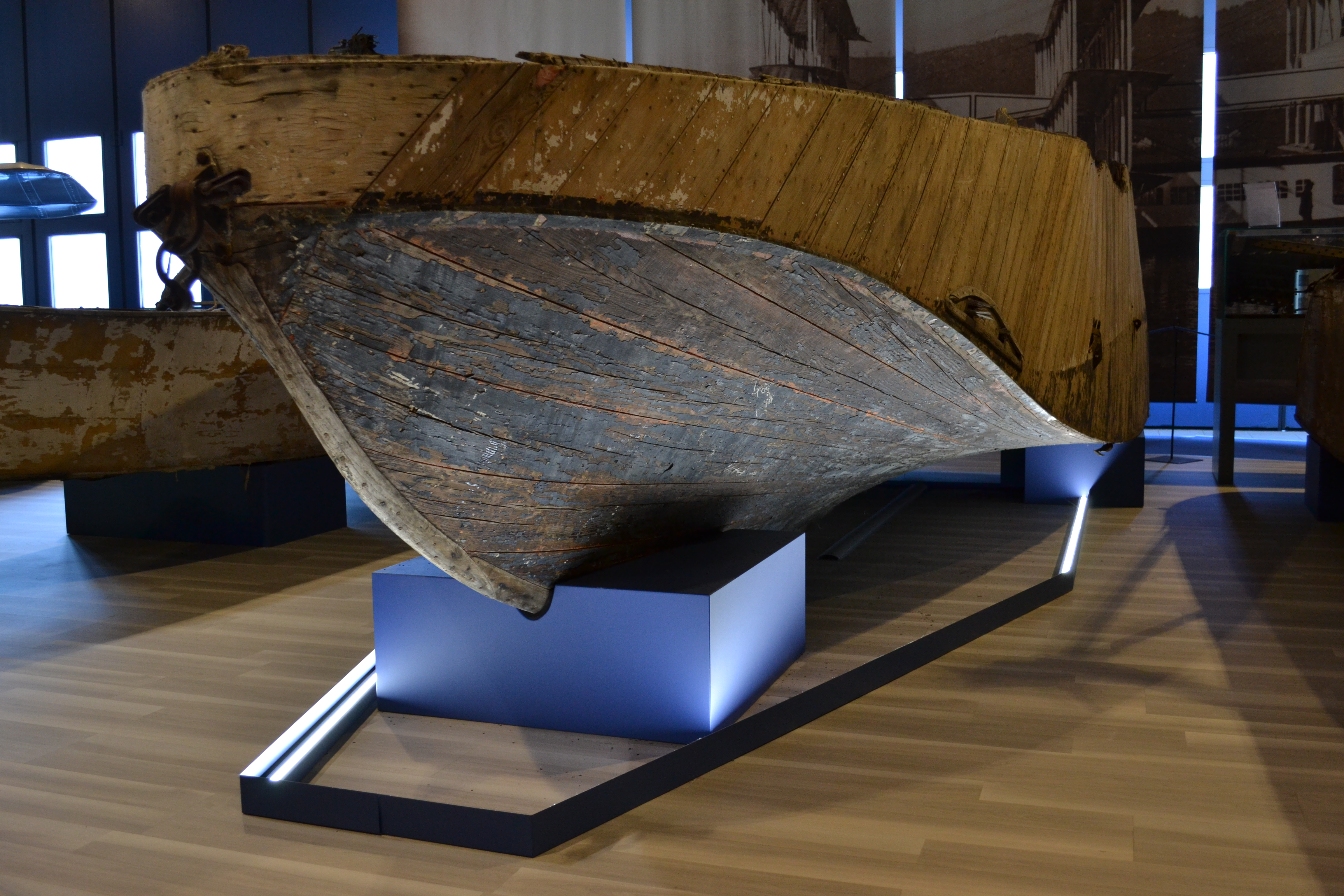 The fore section of the hull of the Caproni Ca.60 Transaereo flying boat. First flown in 1921, this huge seaplane (capable of carrying 100 passengers) proved unsuccesful and was soon abandoned. The only surviving parts of the 77-meter hull are preserved in the Caproni Museum in Trento.